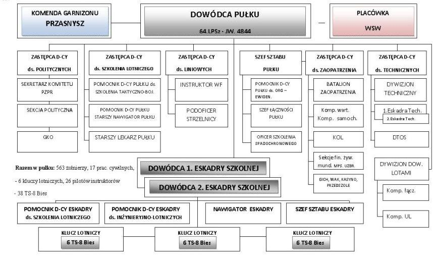 Struktura 64 LPS z 1961